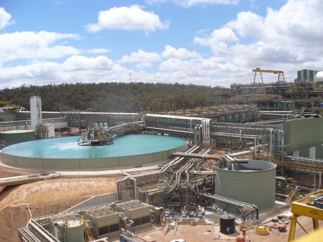 Picture of the Boddington Gold Mine, Western Australia.